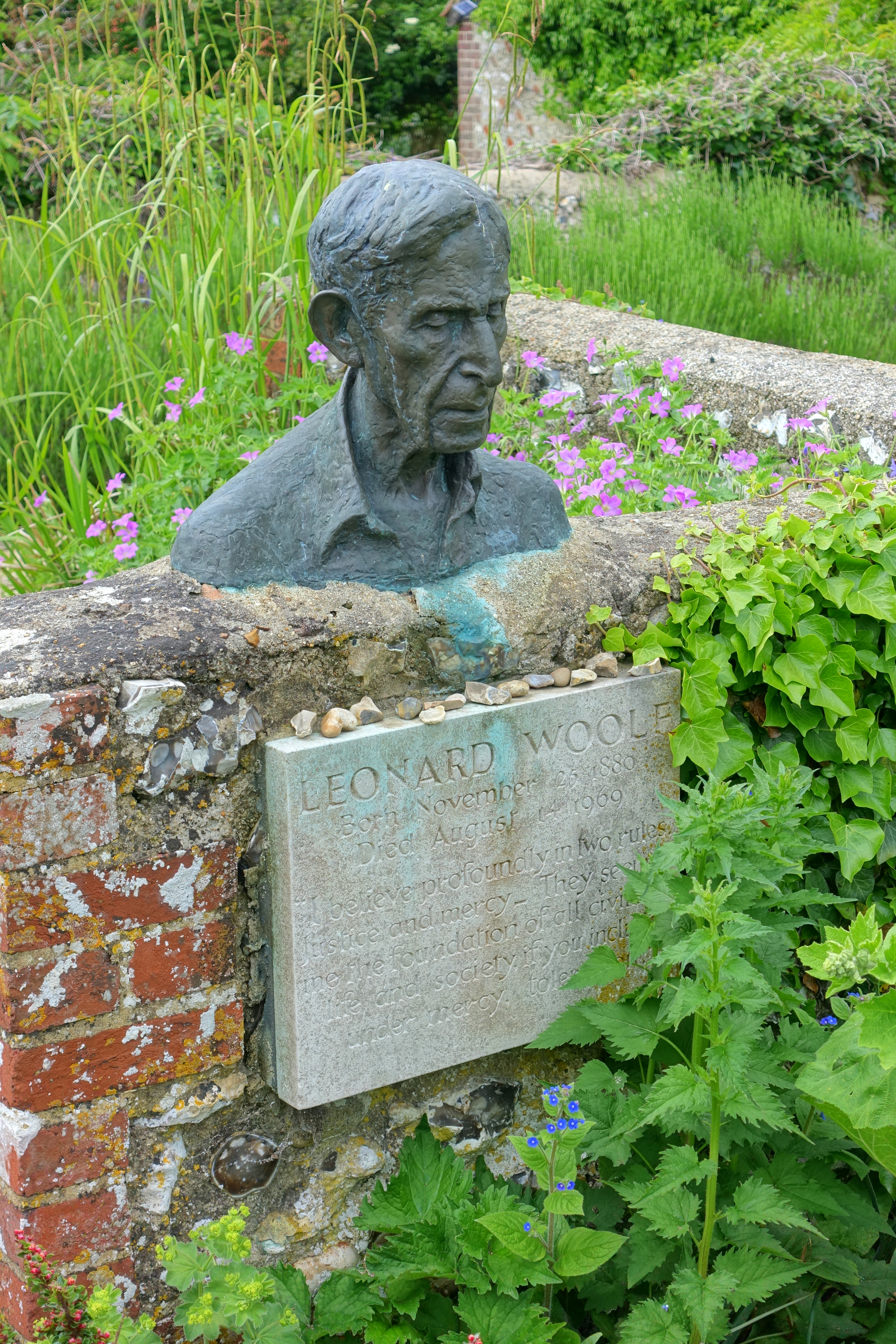 Leonard Woolf by Charlotte Hewer, 1968 - Monk's House - Rodmell, East Sussex, England.